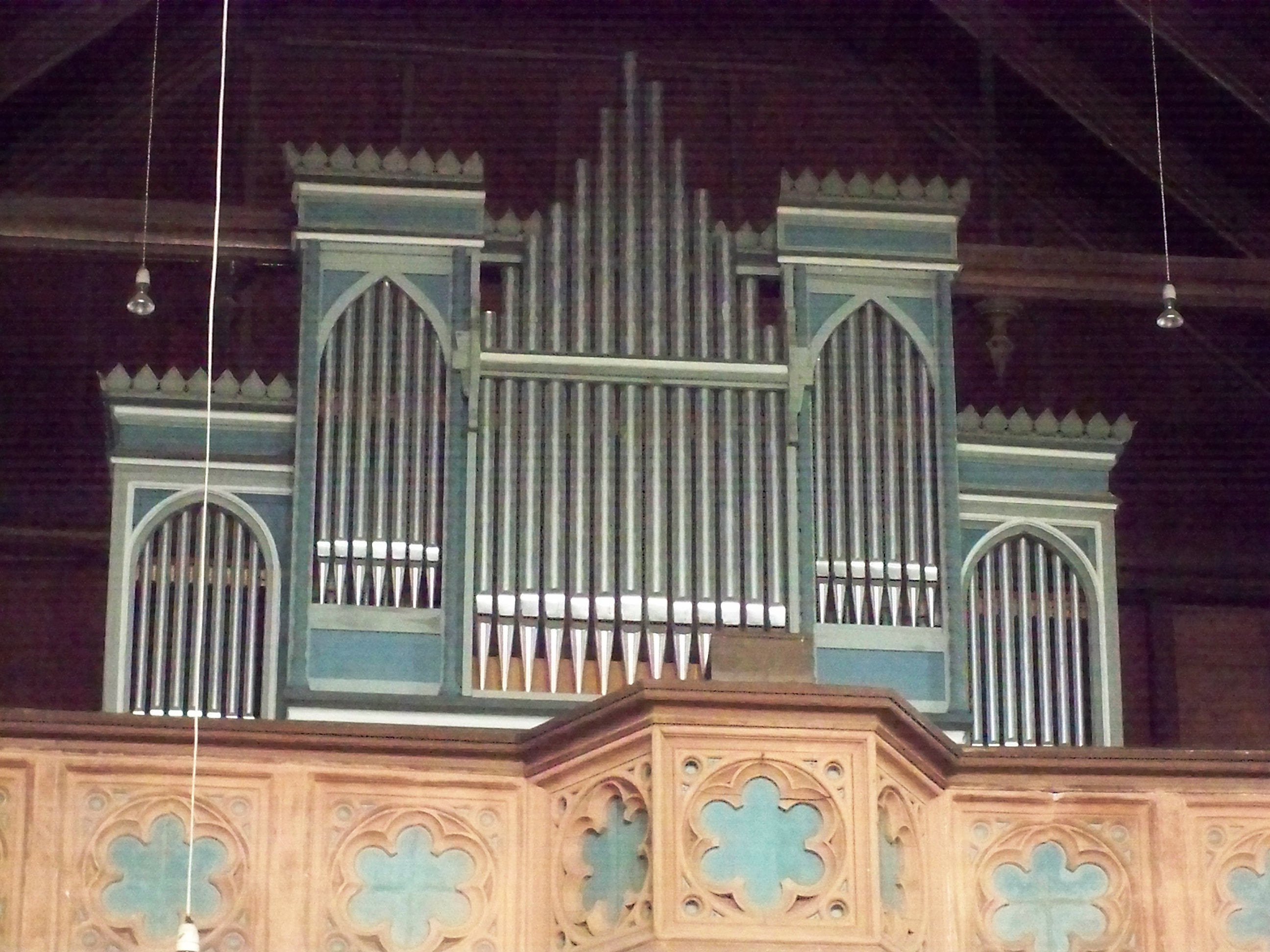 Kloster Neuendorf, Gardelegen, Saxony-Anhalt, former monastery church, pipe organ